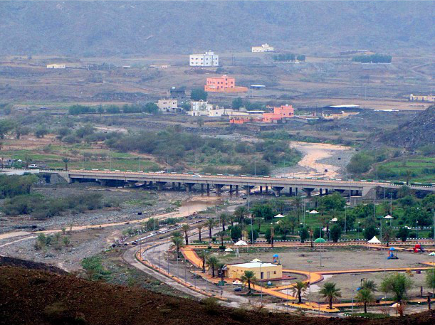 Gdraymah is a town in Bareq